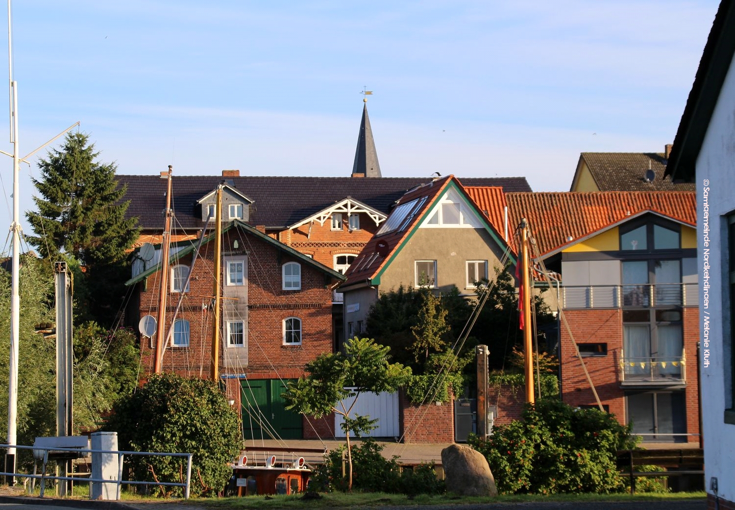 View of the buildings by the habor of Freiburg/Elbe in Nordkehdingen.